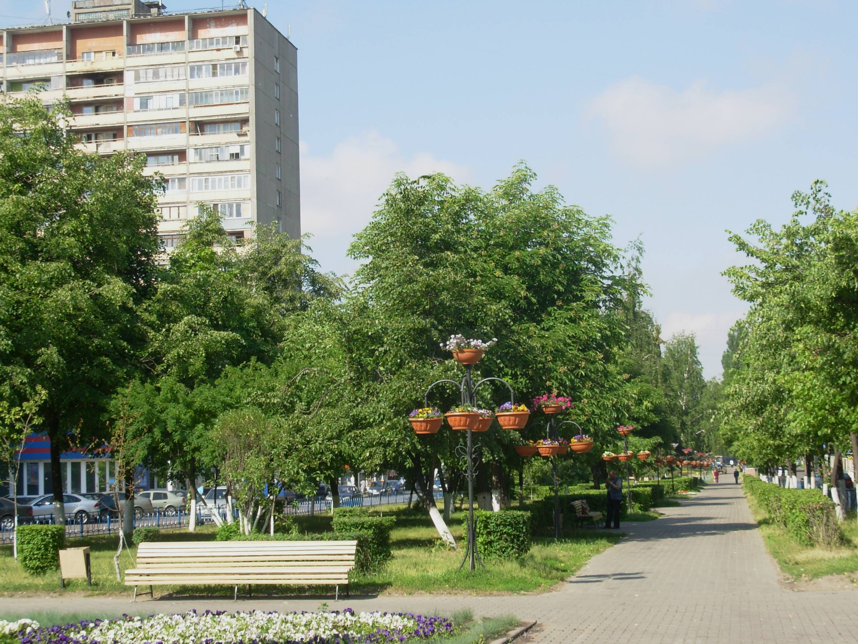 street